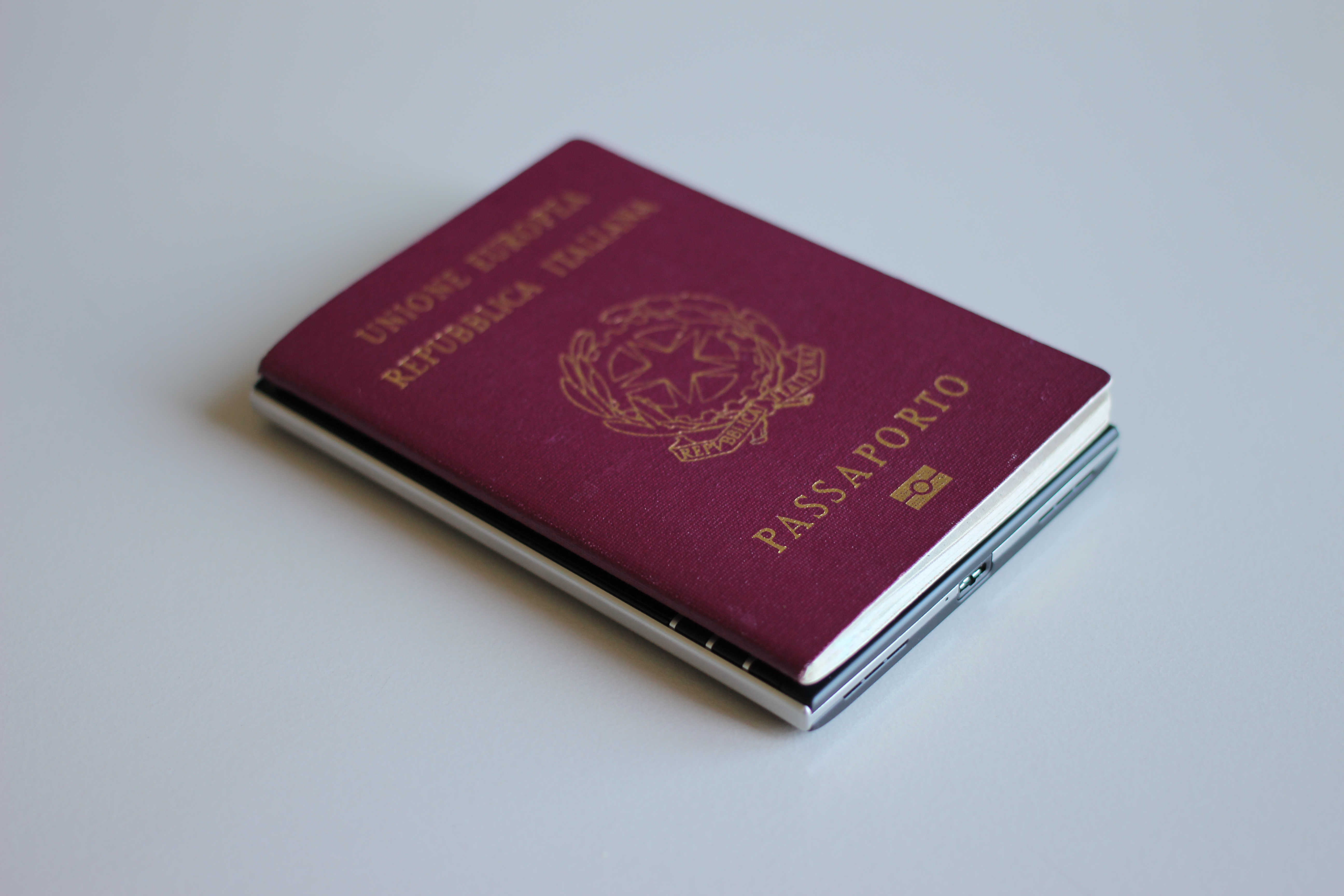 BlackBerry Passport